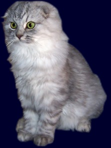 Highland Fold in blue-silver-tabby mc